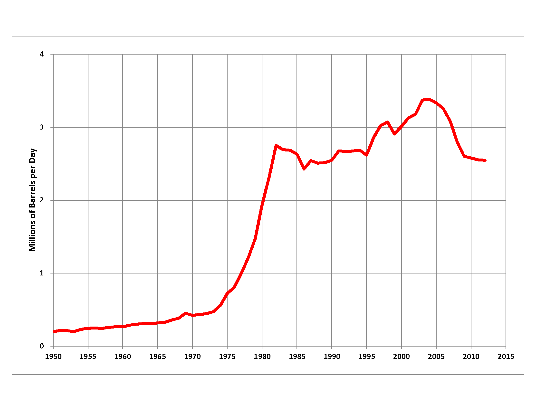 Mexican Petroleum Production by year Created using MS Excel with data from the U.S. Energy Information Administration